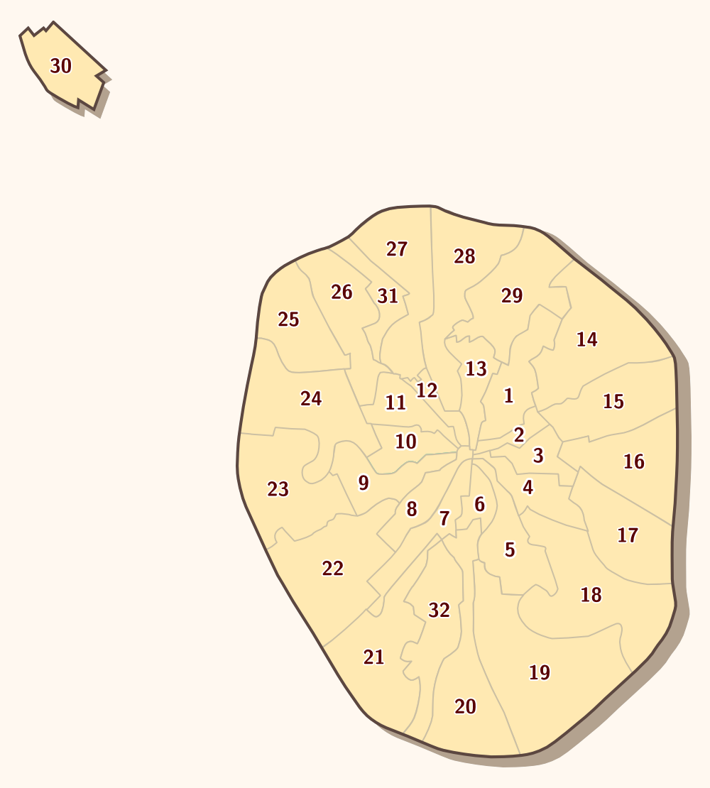 Map of all 32 districts of Moscow in 1978